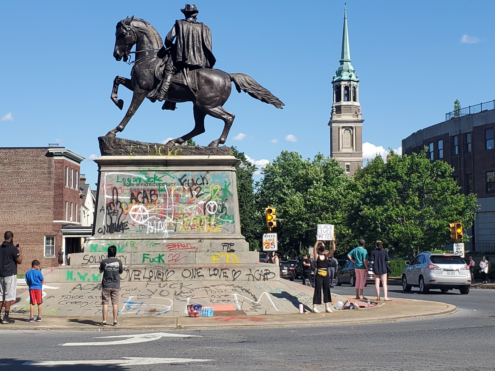 Photo I took of protests in Richmond, Virginia in relation to the George Floyd protests. Photo by Tyler Walter.